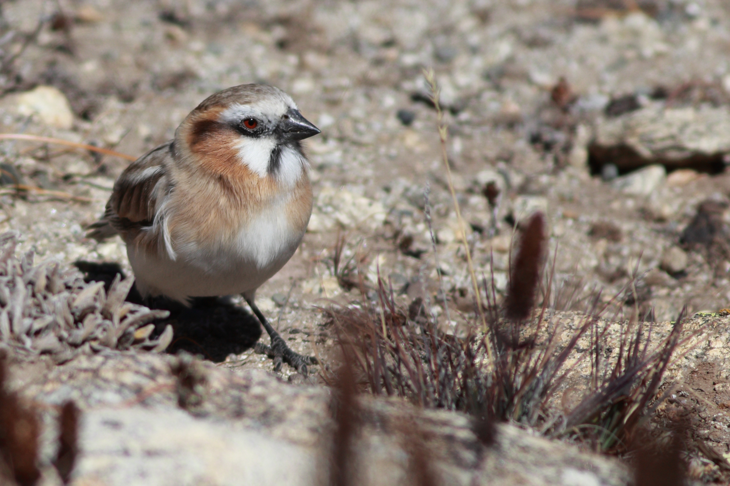 The species Rufous-necked Snowfinch was sighted in north Sikkim, India on 15.10.2019.